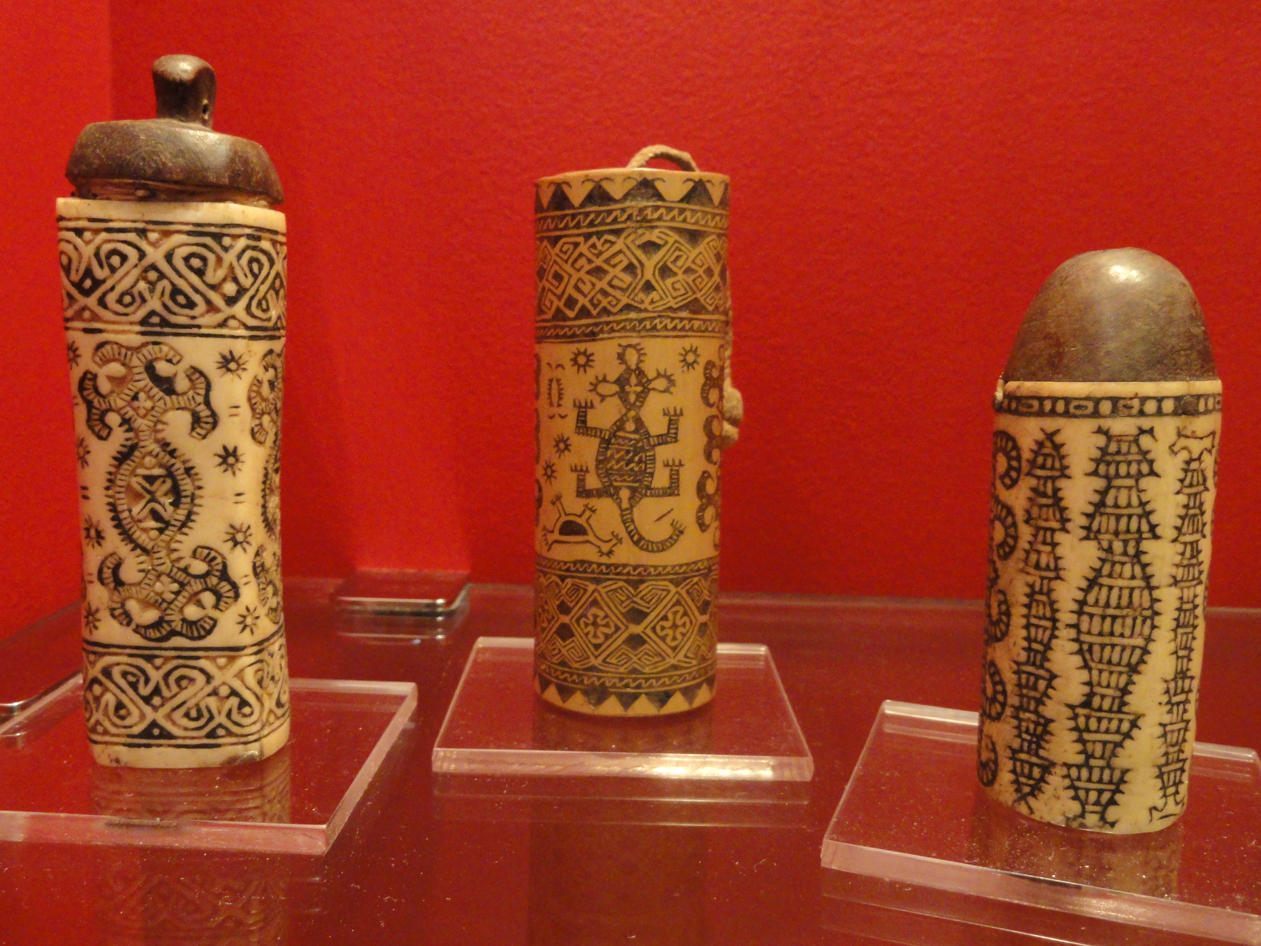 Exhibit in the Oceanic collection of the Staatlichen Museums für Völkerkunde München, Maximilianstraße 42, Munich, Germany. Betel containers, bone and bamboo, Timor, 1925-1952.